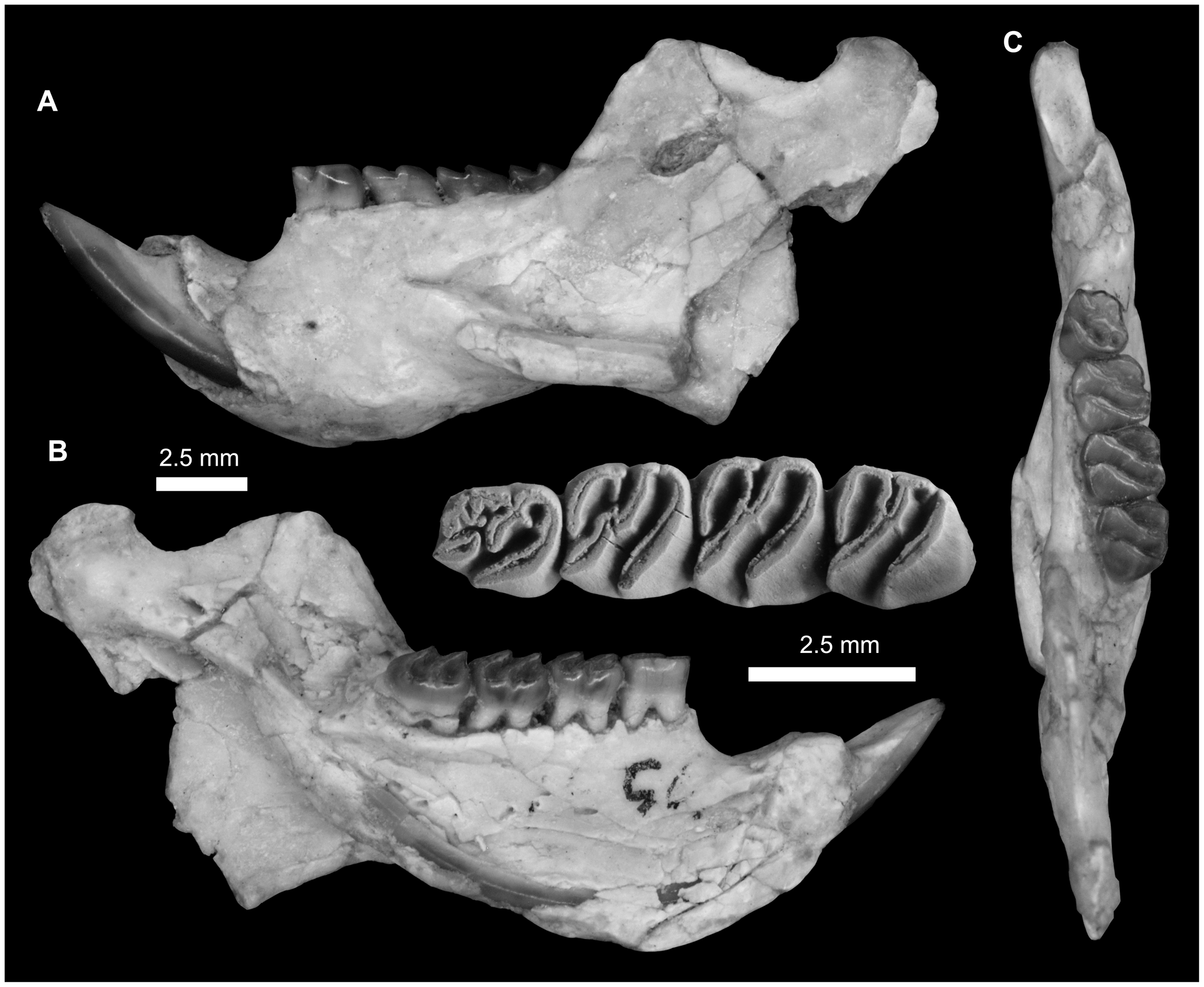 Mandibular fragments and lower dentition of Gaudeamus hylaeus, new species. A–C, DPC 9456, almost complete left mandible with P4-M3 and dislocated incisor. A, lateral view; B, medial view; C, occlusal view. Some of the mandible elements are displaced due to postdepositional distortion.